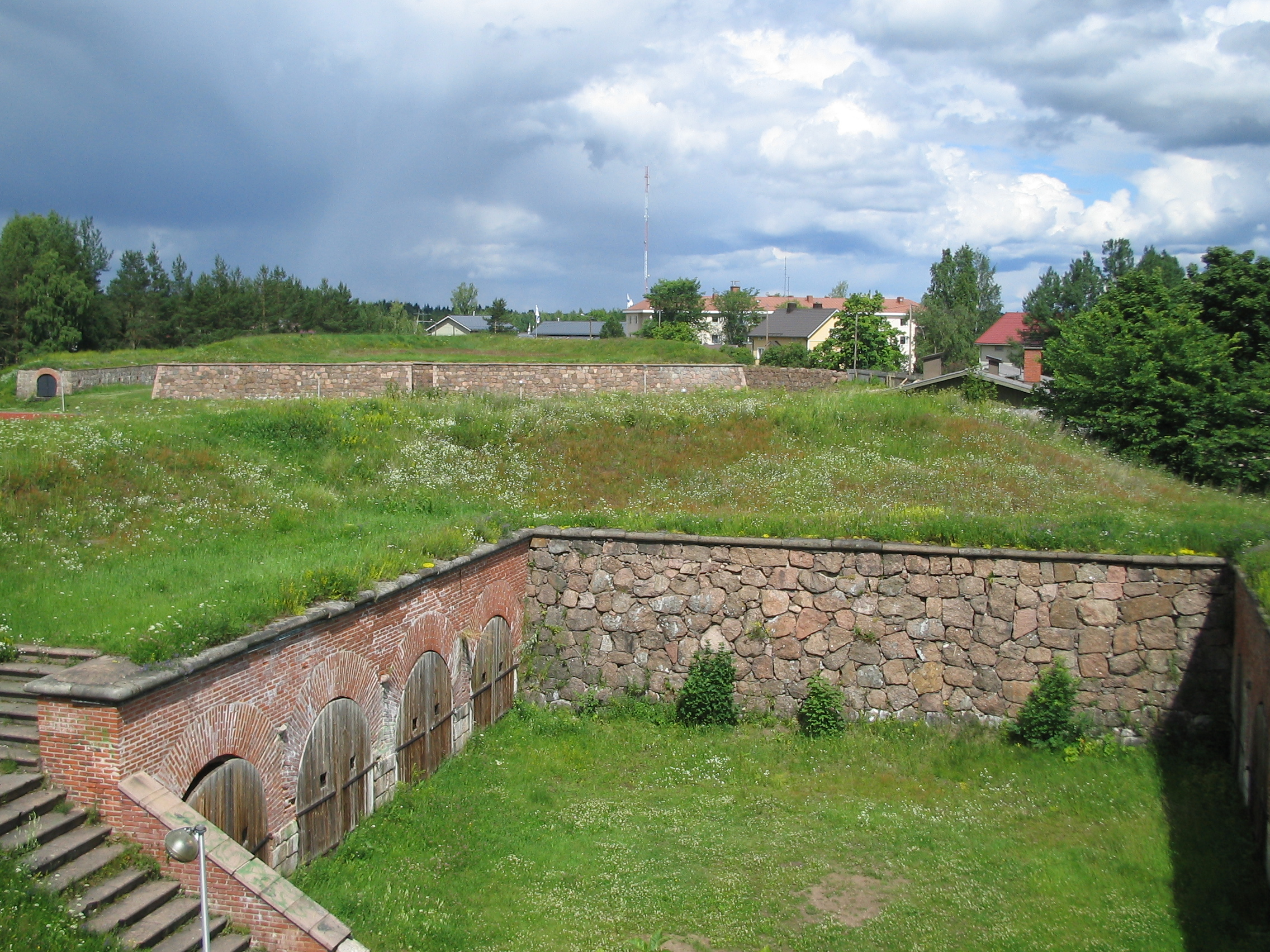 fortress of hamina, caponier and arrow fort